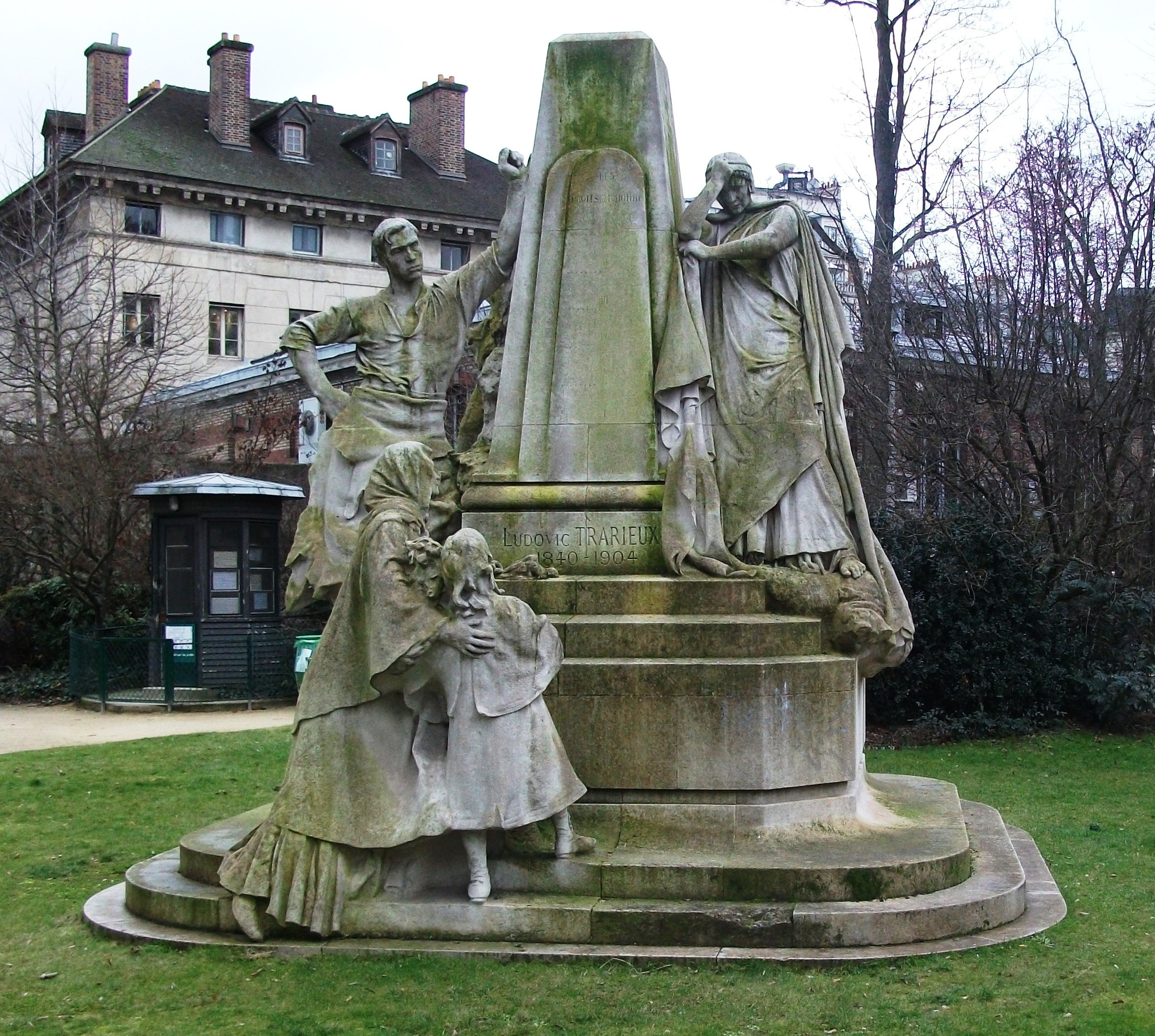 Sculpture erected Place Denfert-Rochereau, in Paris, commemorating Ludovic Trarieux, founder of the Ligue des Droits de l'Homme